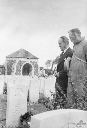 Australian World War I Victoria Cross recipients, Joseph Maxwell (left) and John Hamilton (right) visit the grave of fellow Australian VC recipient, Lewis McGee, who was killed in action in Belgium during 1917.